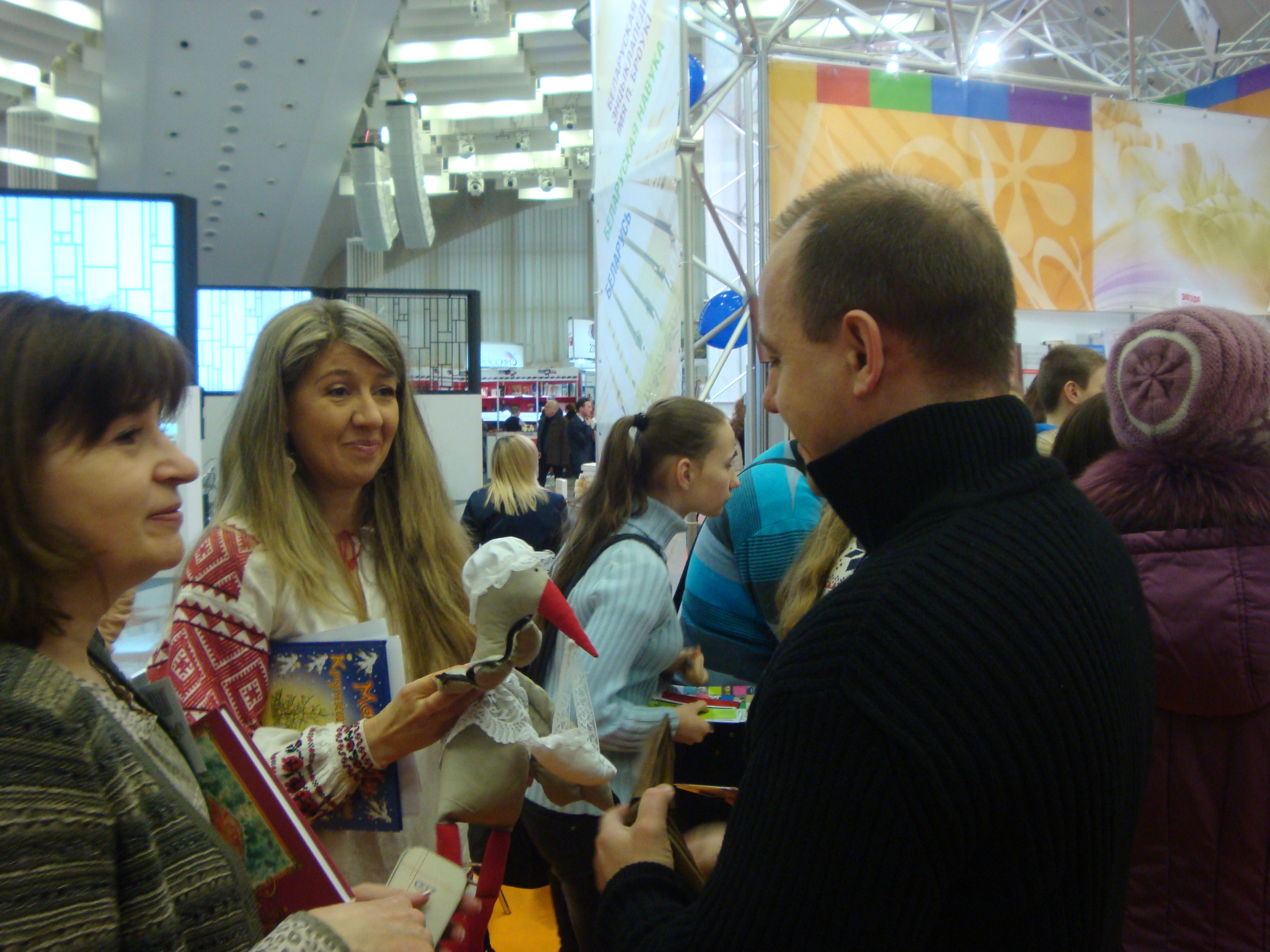 a belorussian writer Aksana Sprynchan and her readers on XXII International book exhibition in Minsk city (Belarus). 14 February 2015 AD